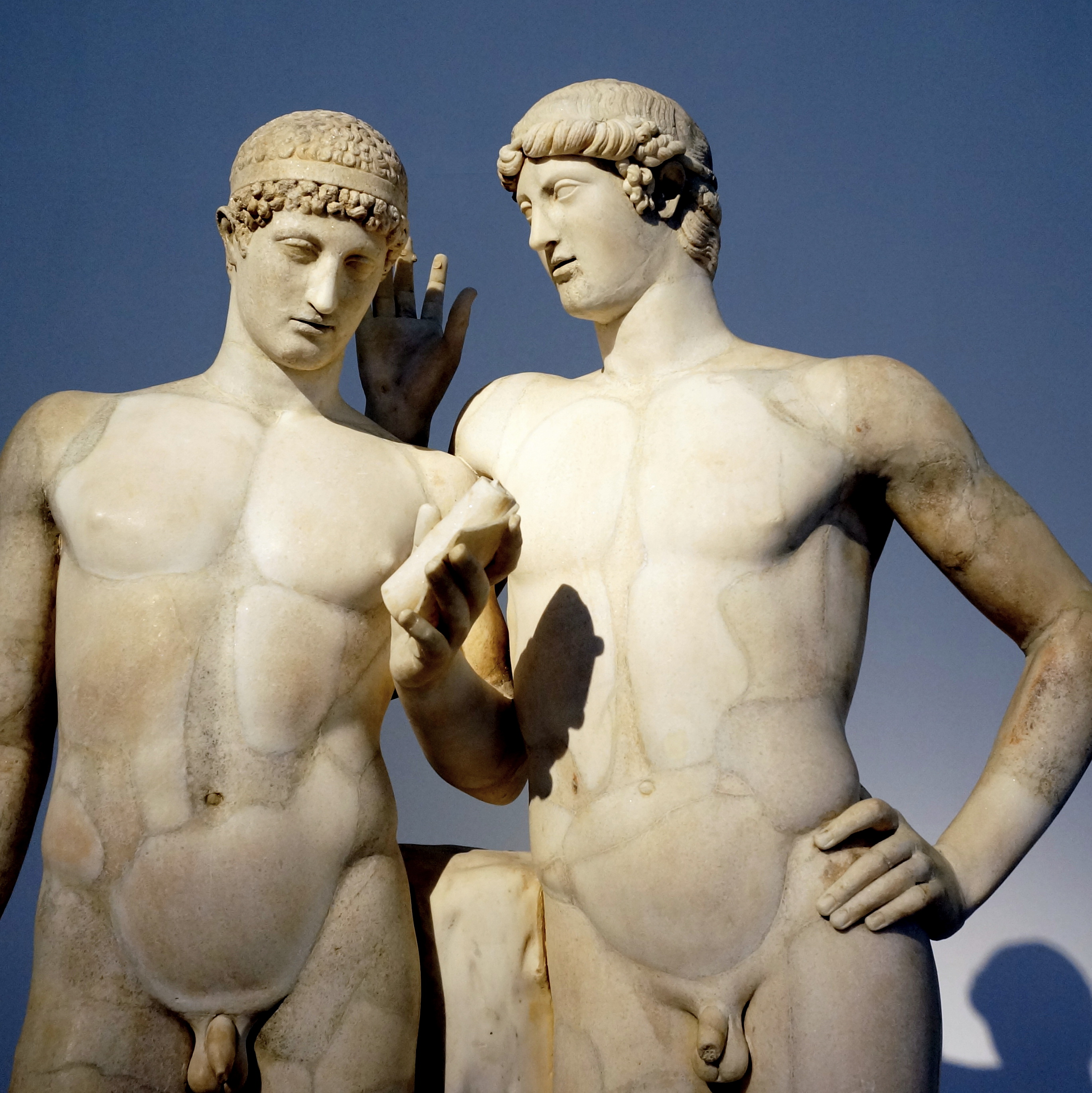 Paris, July 2014 - Grand Palais